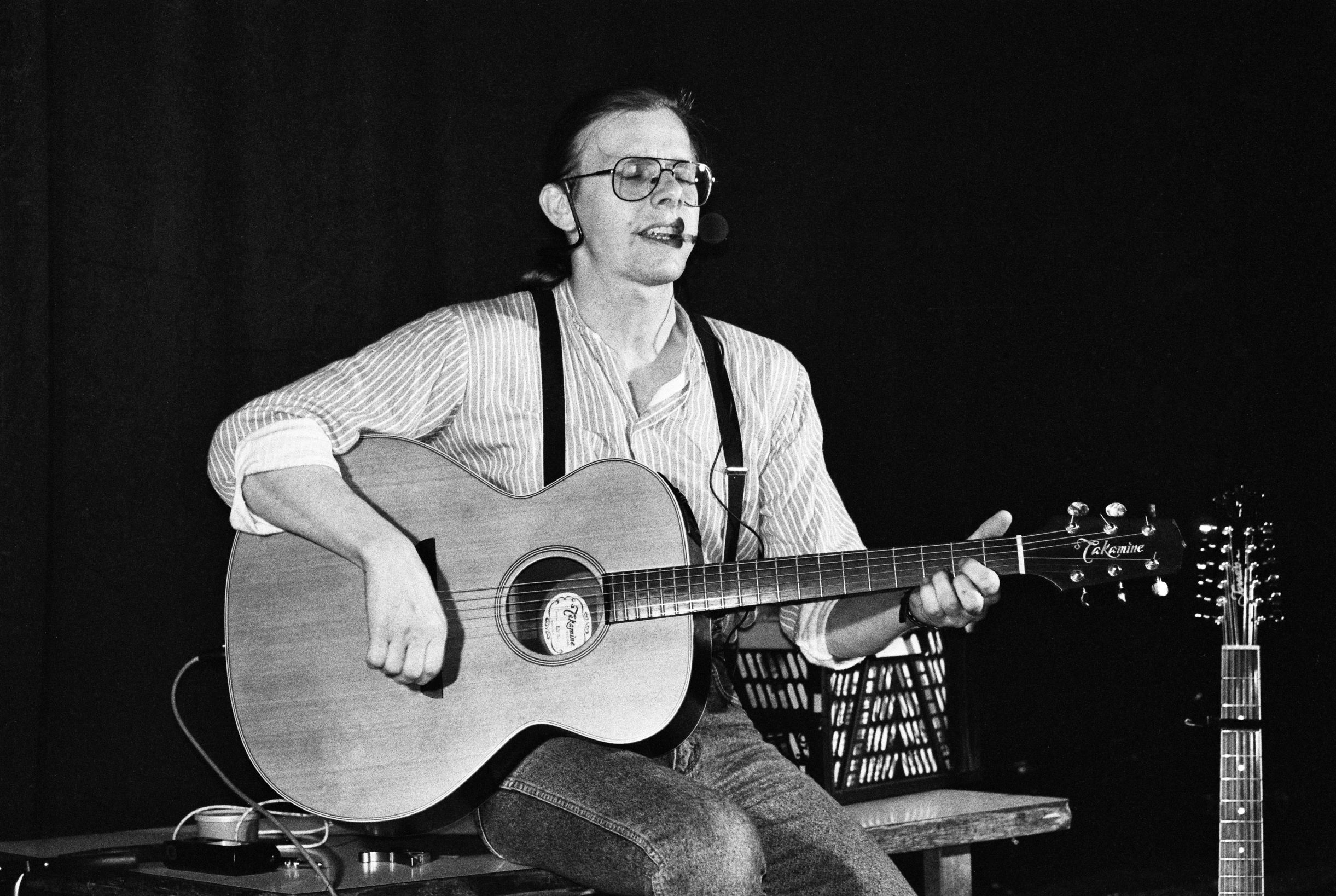 Photo of German singer-songwriter Gerhard Gundermann.